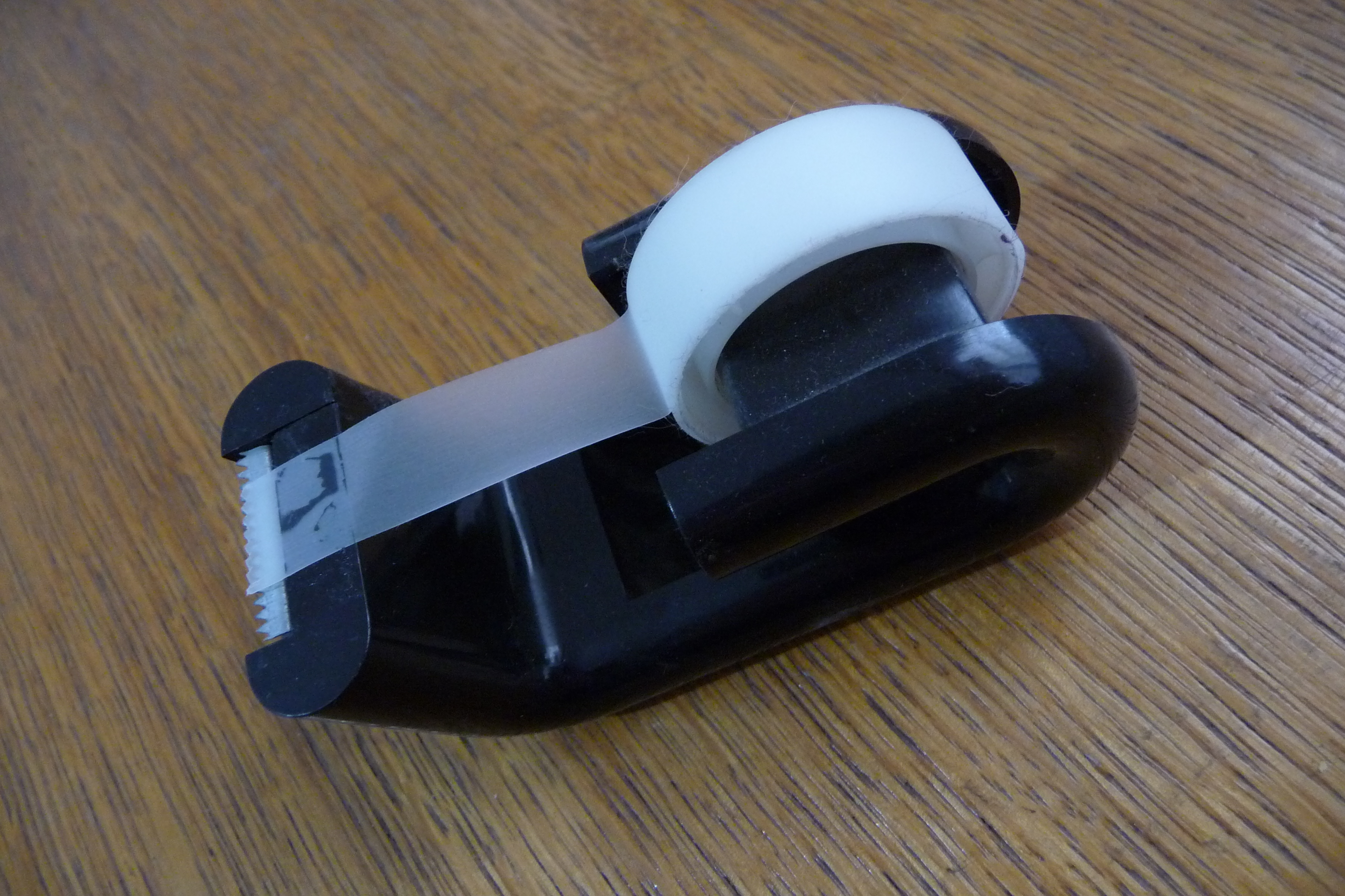 Sellotape transparent black cutting facility